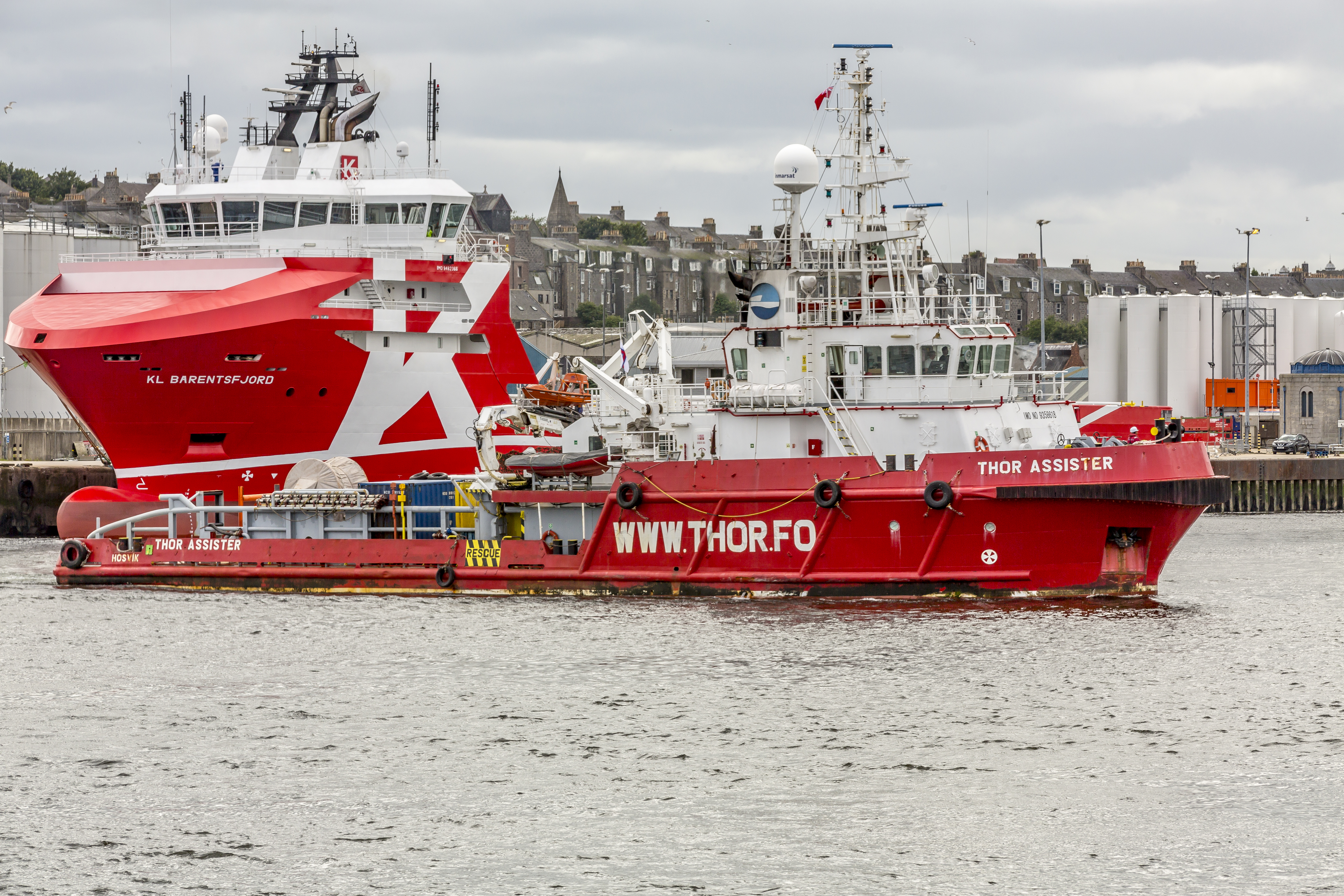 IMO: 9358618 MMSI: 231013000 Call Sign: OZ2061 Flag: Faroe Is [FO] AIS Vessel Type: Cargo Gross Tonnage: 675 Deadweight: 589 t Length Overall x Breadth Extreme: 45m × 11.83m Year Built: 2006